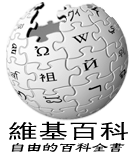 The Chinese Wikipedia logo